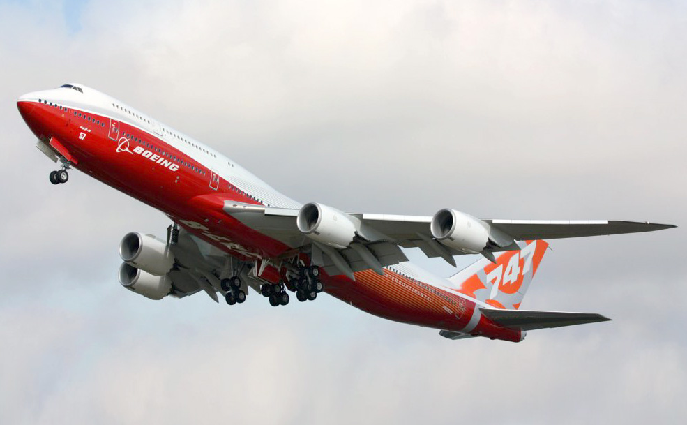 The first Boeing 747-8I prototype photographed departing BFI as BOE008 Heavy in 2011